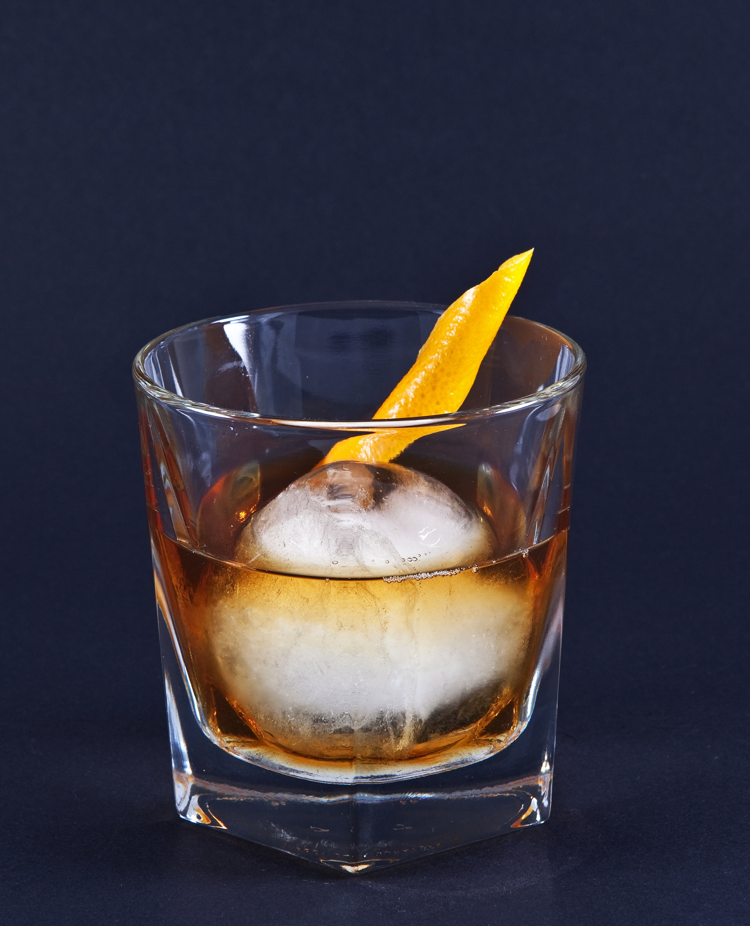 A Whiskey Old Fashioned on an iceball, decorated with an orange twist.